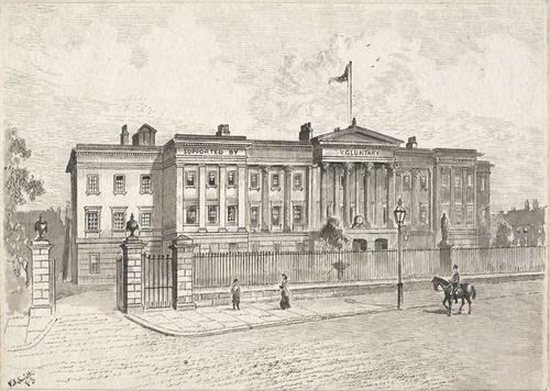 Hull Royal Infirmary (old print). The building was extended in 1840 by Henry Francis Lockwood.